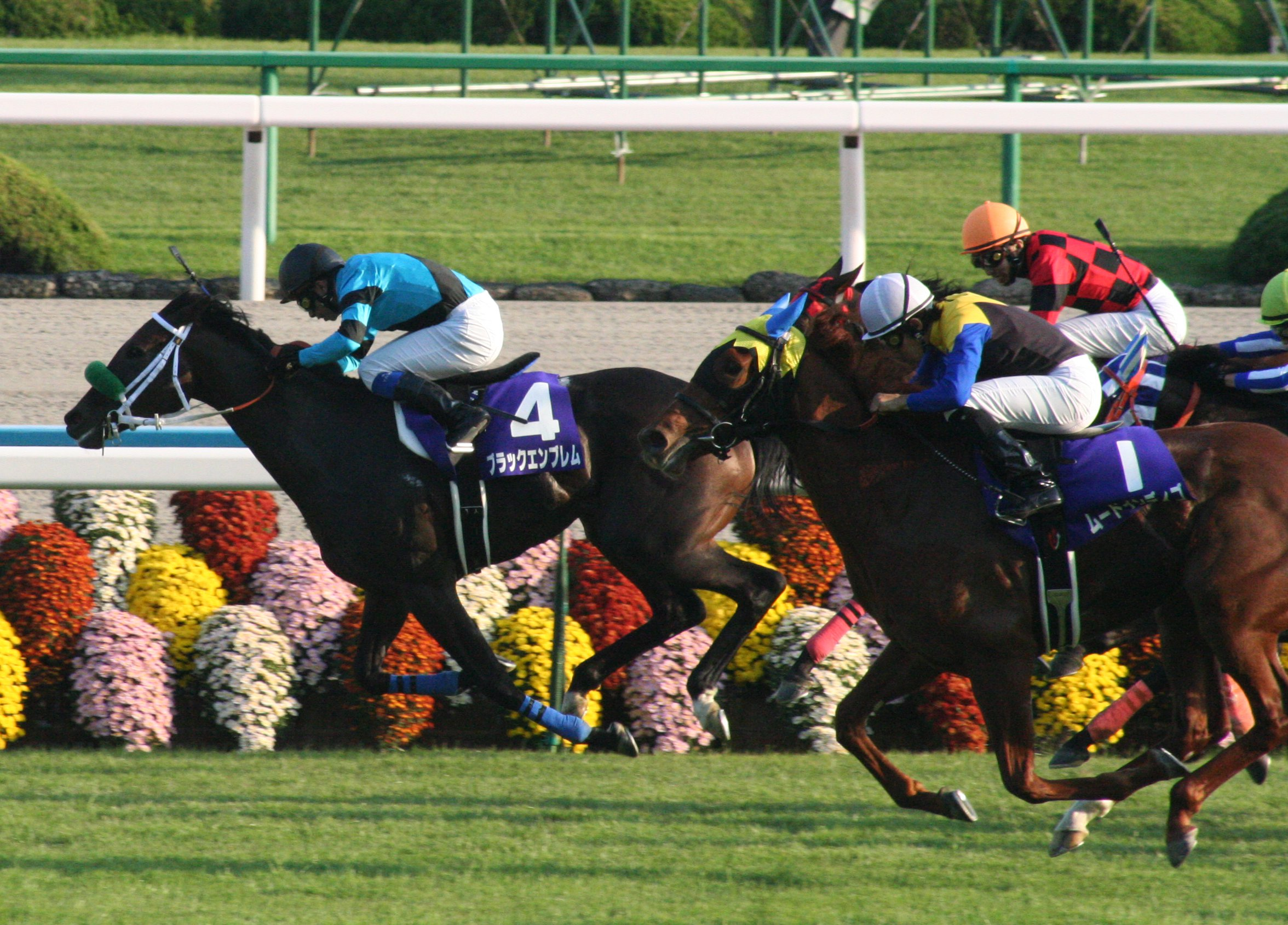 The 13th Shuka Sho